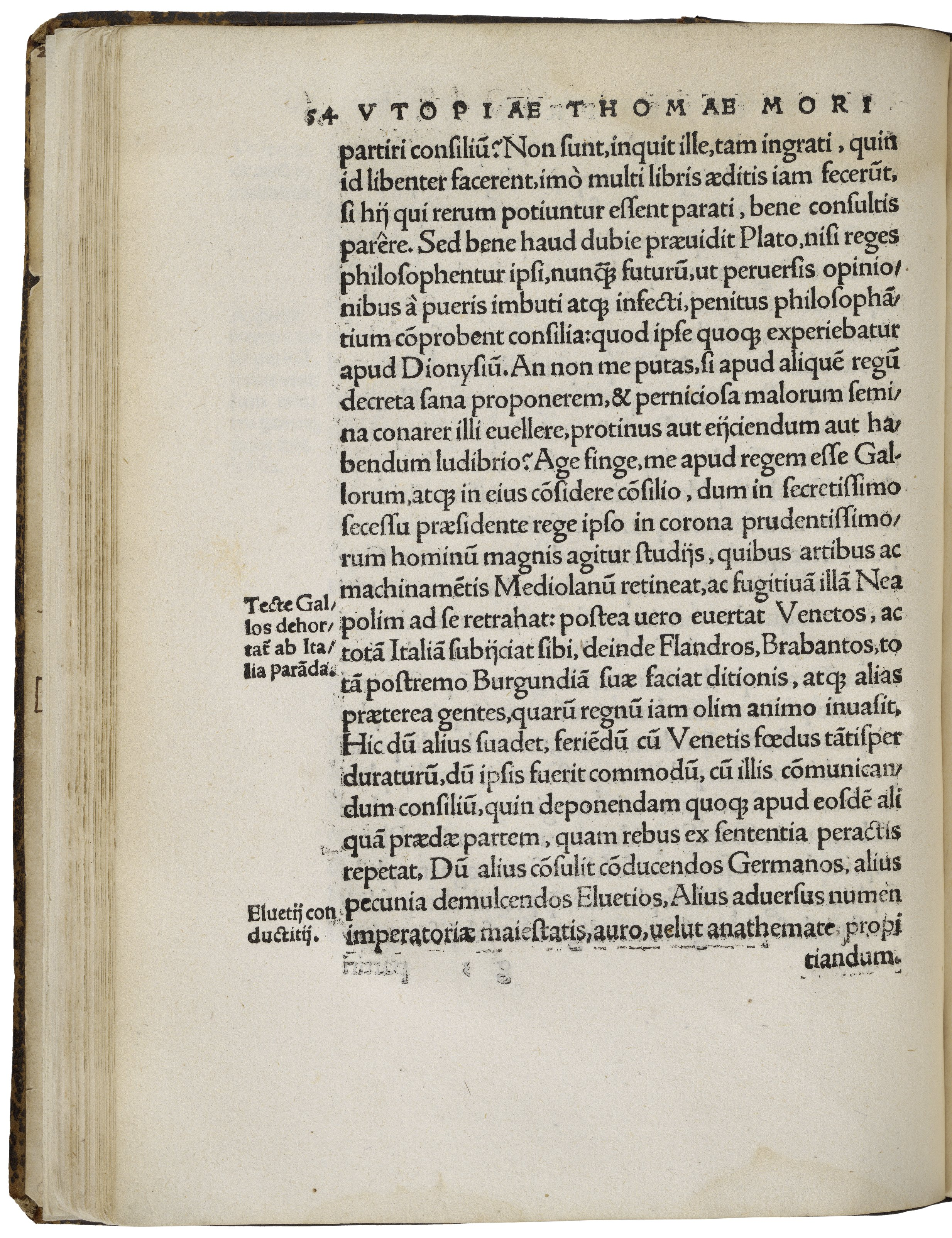 This is the page 54 of Thomas More's Utopia, printed in november 1518 by Johan Froben